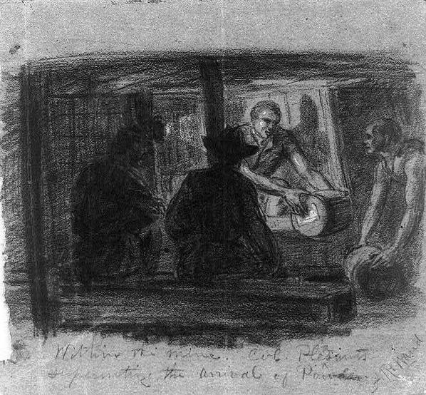 Charcoal sketch depicting Col. Pleasants supervising the mining at Petersburg in preparation for the Battle of the Crater. Title inscribed below image. Note: Inscribed on an attached piece of cream paper: Carrying powder into the mine. The soldiers detailed for this duty carried the power--a keg in either end of a grain bag thrown across the shoulder. A portion of the covered way' along which they had to pass, was exposed to the enemies fire. At the dangerous points they would watch their oppartunity[sic] and dash over the exposed ground into comparative safety. Published in: Harpers Weekly, 20 August 1864, p. 528 (cover). Info from LOC: TITLE: Within the mine. Col. Pleasants superinting [sic] the arrival of powder CALL NUMBER: DRWG/US - Waud, no. 447 (A size) [P&P] REPRODUCTION NUMBER: LC-USC4-12564 (color film copy transparency) LC-USZ62-14653 (b&w film copy neg.) No known restrictions on publication. CREATED/PUBLISHED: CREATOR: Waud, Alfred R. (Alfred Rudolph), 1828-1891, artist. NOTES: Signed lower right: AR. Waud. Gift, J.P. Morgan, 1919 (DLC/PP-1919:R1.2.447) Reference print available in the Civil War Drawings file -- 1864. Forms part of: Civil War drawing collection.